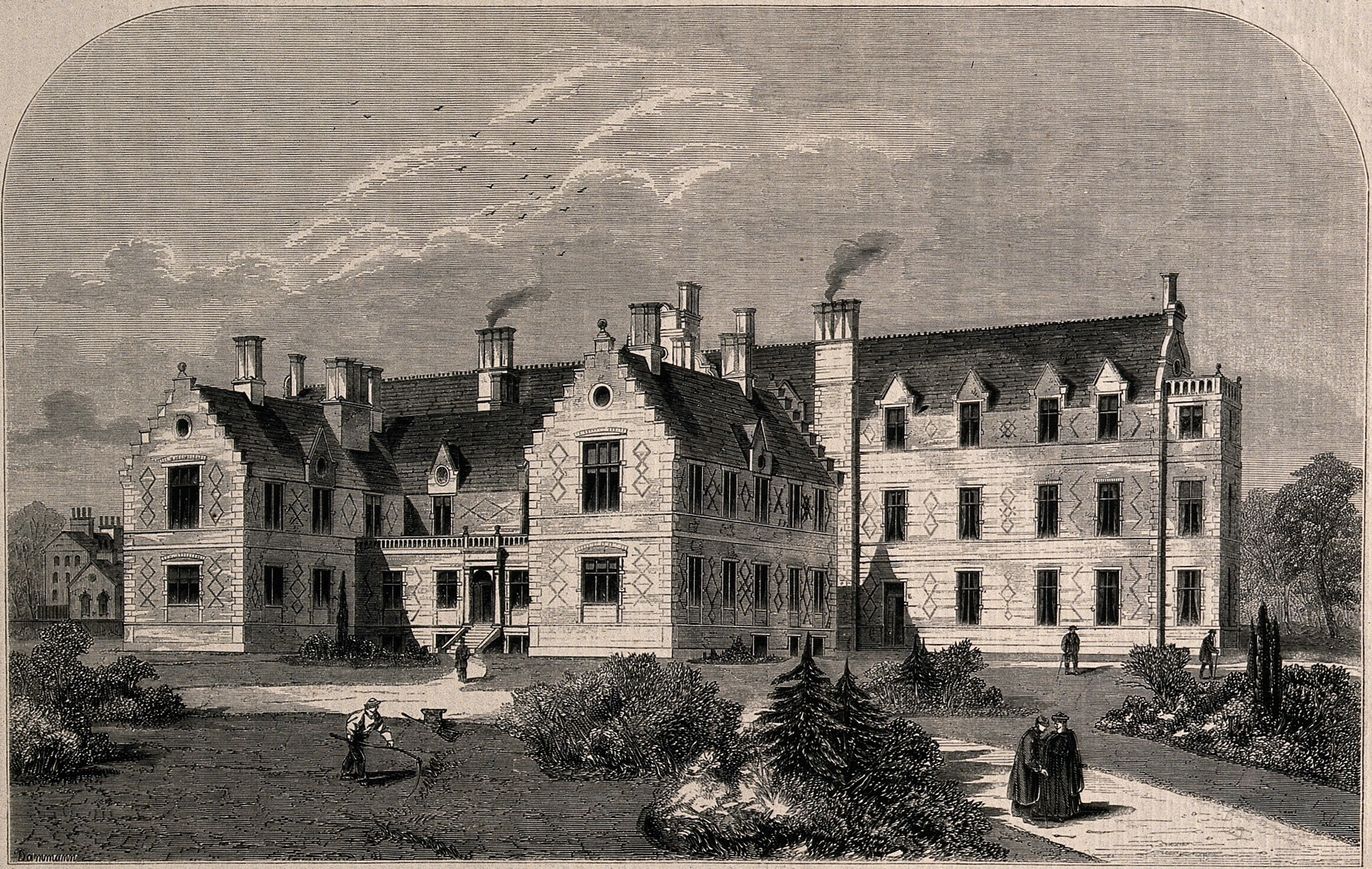 The German Hospital, Dalston, London. Wood engraving by C. Dammann, 1864. Iconographic Collections Keywords: C. Dammann; Thomas Leverton Donaldson; Edward Augustus Gruning